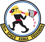 Author: USAF Historical Research Agency Rationale: Unique Unit logo for identification